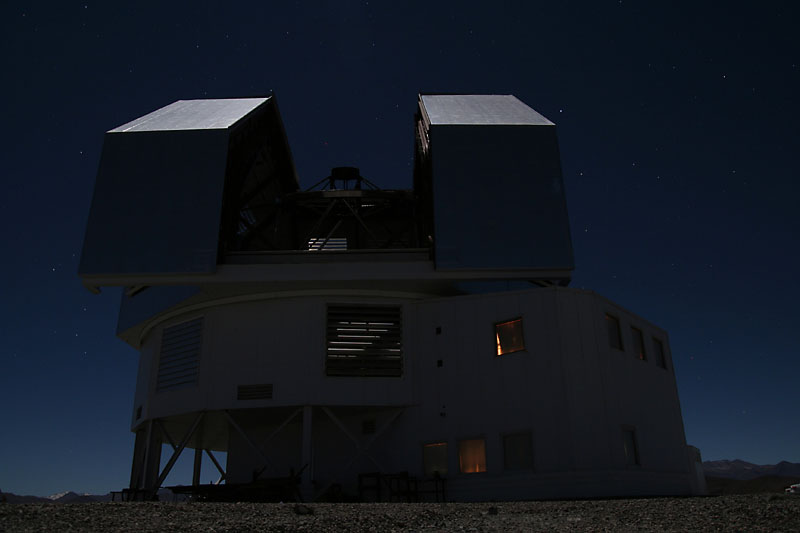 Clay Telescope at Las Campanas Observatory.